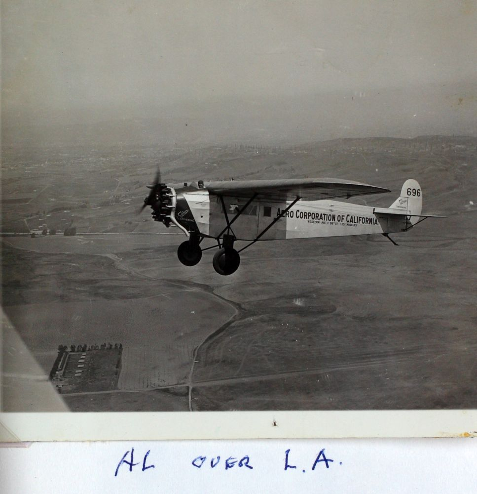 Fokker Universal NC696 c/n 416 Aero Corporation of California over Los Angeles with pilot Albert Hobart.